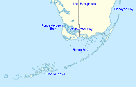 Map showing the southern tip of Florida identifying major waterways